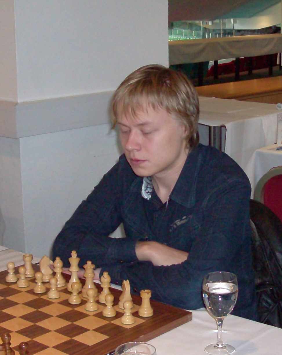 Tomi Nyback, chess grandmaster